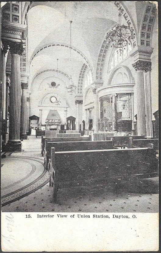 Early divided back postcard of Dayton Union Station in 1908